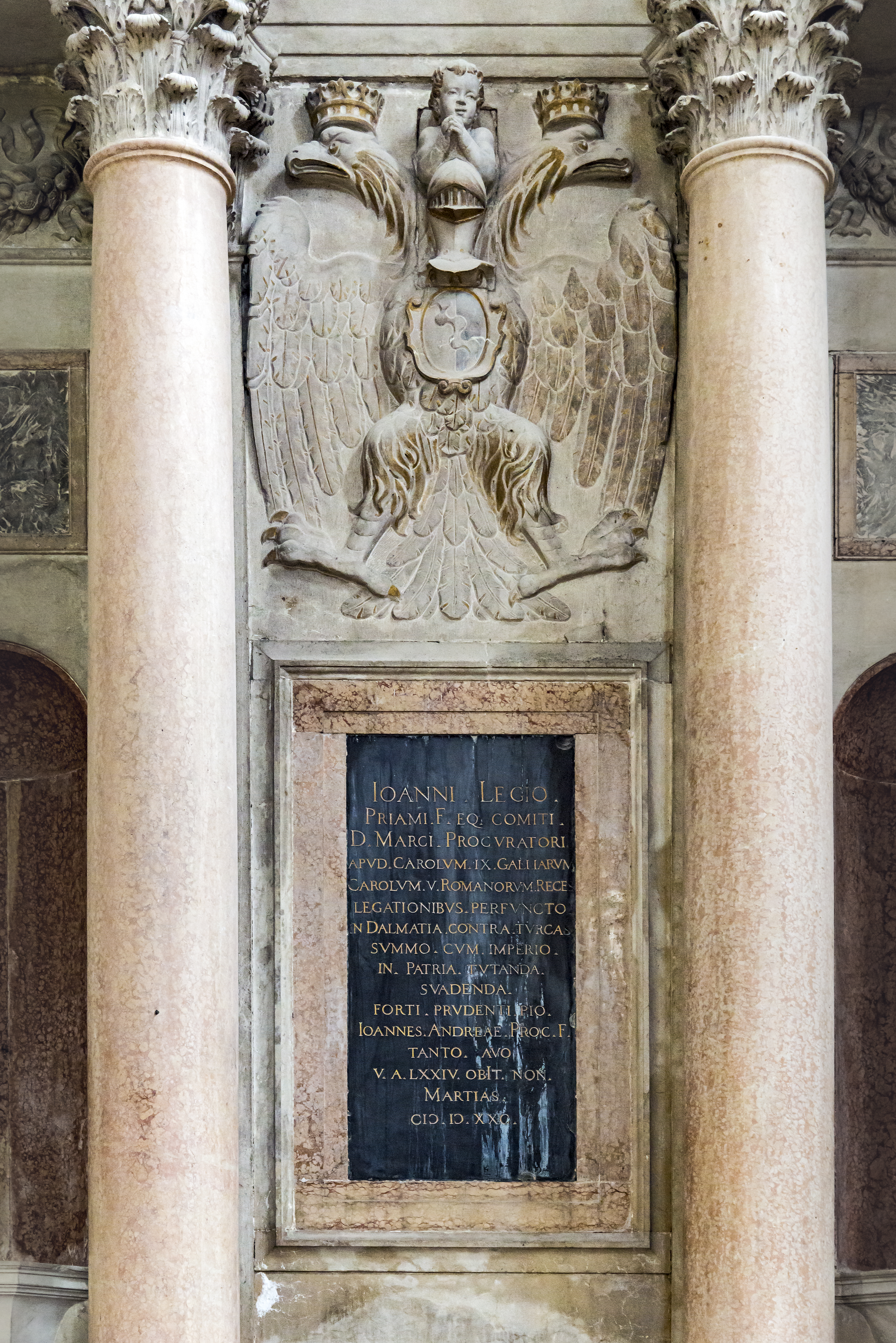 I Gesuiti, Venice Counter-façade - Epitaph to Giovanni Da Lezze